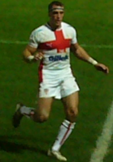 Rob Purdham